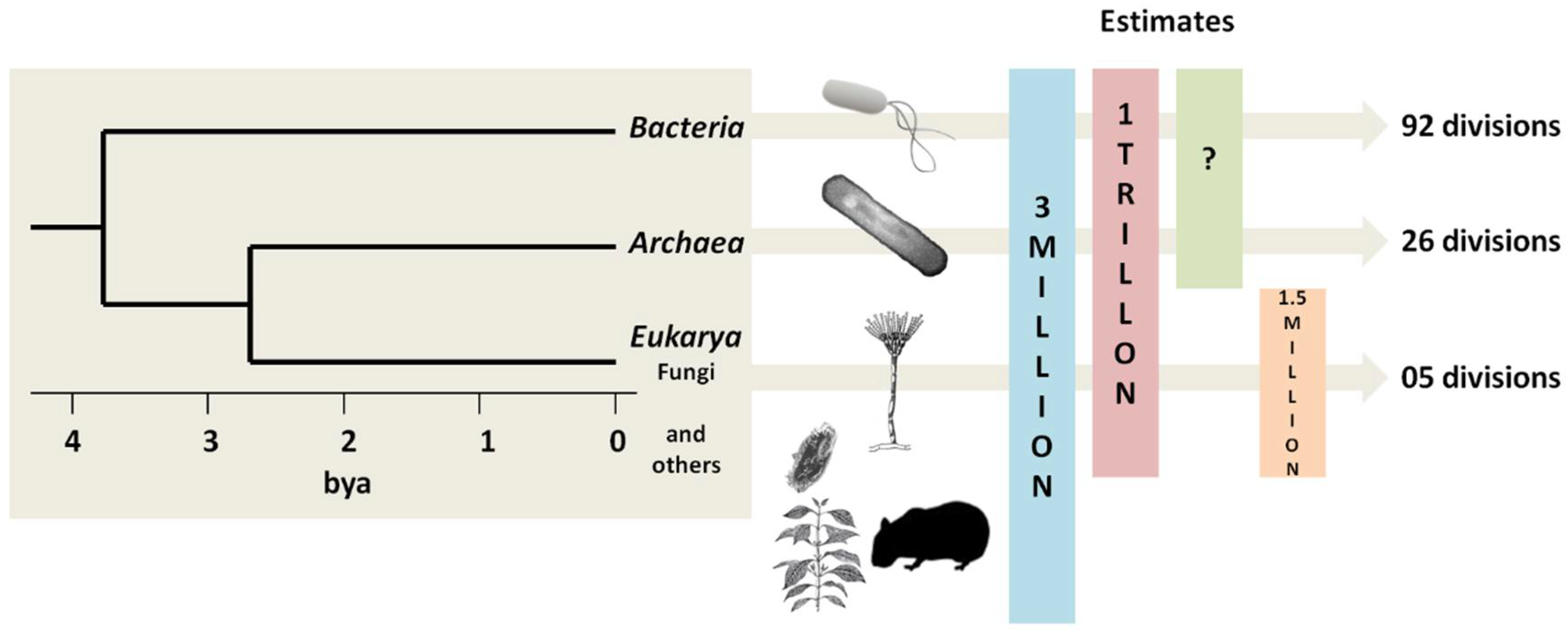 Estimates of the number of microbial species present in the three domains of life. Bacteria are the oldest and most biodiverse group, followed by Archaea and Fungi (the most recent groups). In 1998, before awareness of the extent of microbial life had gotten underway, Robert M. May estimated there were 3 million species of living organisms on the planet. But in 2016, Locey and Lennon estimated the number of microorganism species could be as high as 1 trillion. May, R.M. (1988) "How many species are there on earth?". Science, 241(4872): 1441–1449. Locey, K.J. and Lennon, J.T. (2016) "Scaling laws predict global microbial diversity". Proceedings of the National Academy of Sciences, 113(21): 5970–5975.